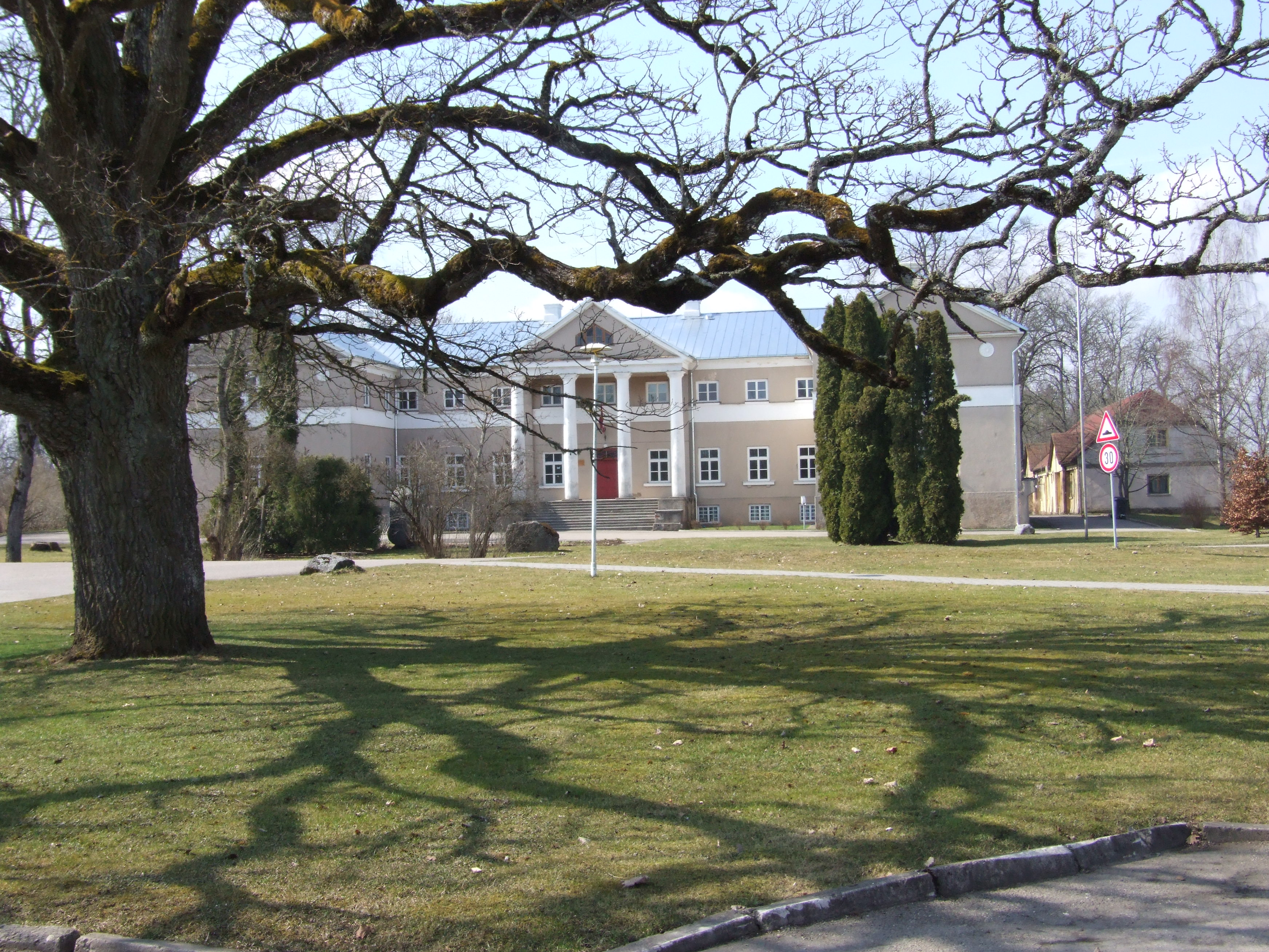 Oak in park of Postenden manor